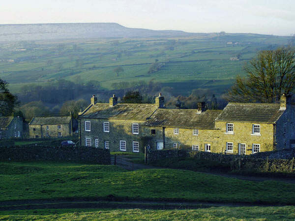 Caldbergh cottages A November evening view of some cottages in the small hamlet of Caldbergh with Penhill in the background